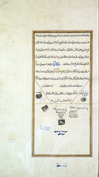 the last page of al-kafi